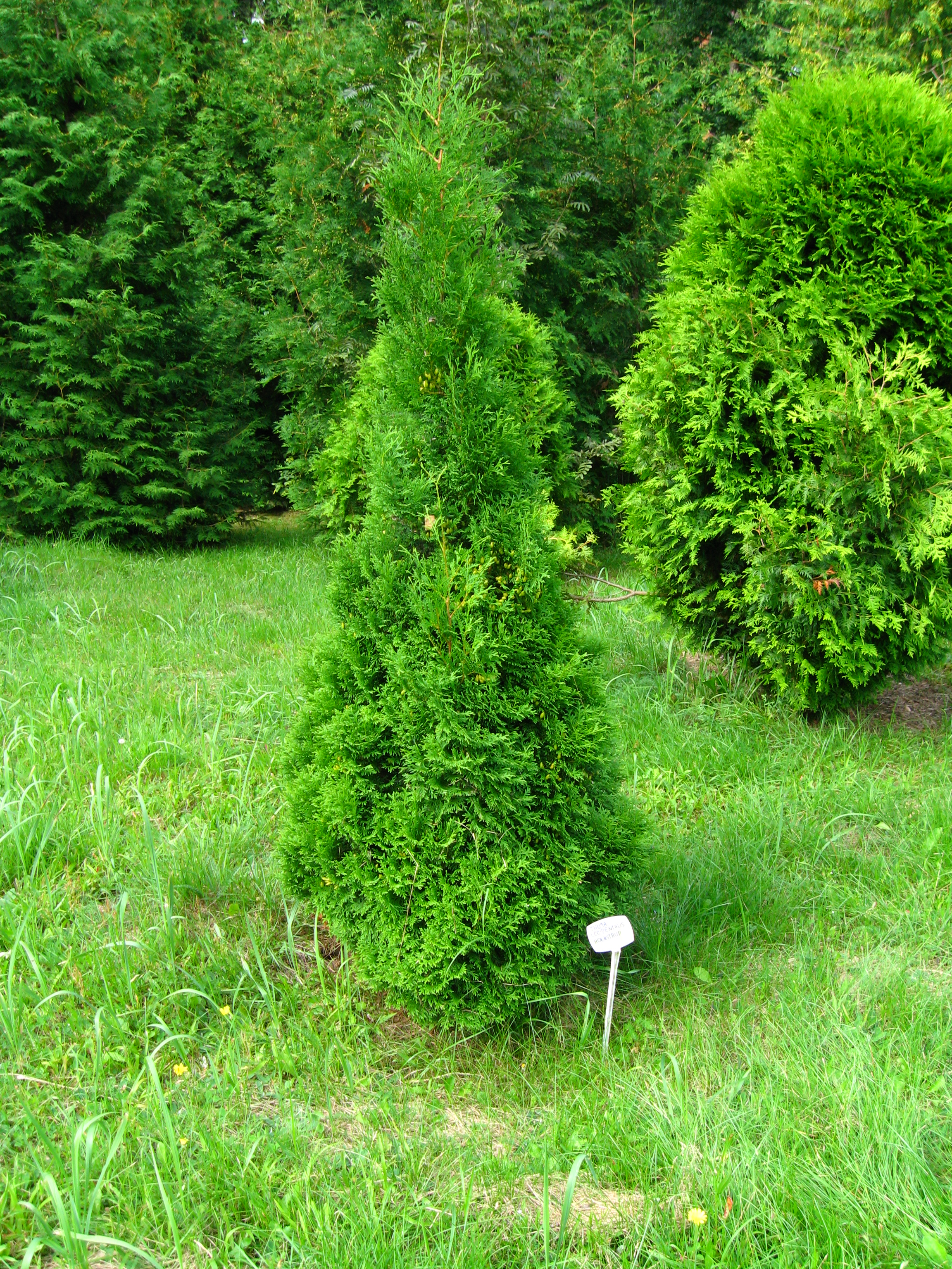 Northern Whitecedar var. Holmstrup (Thuja occidentalis 'Holmstrup')